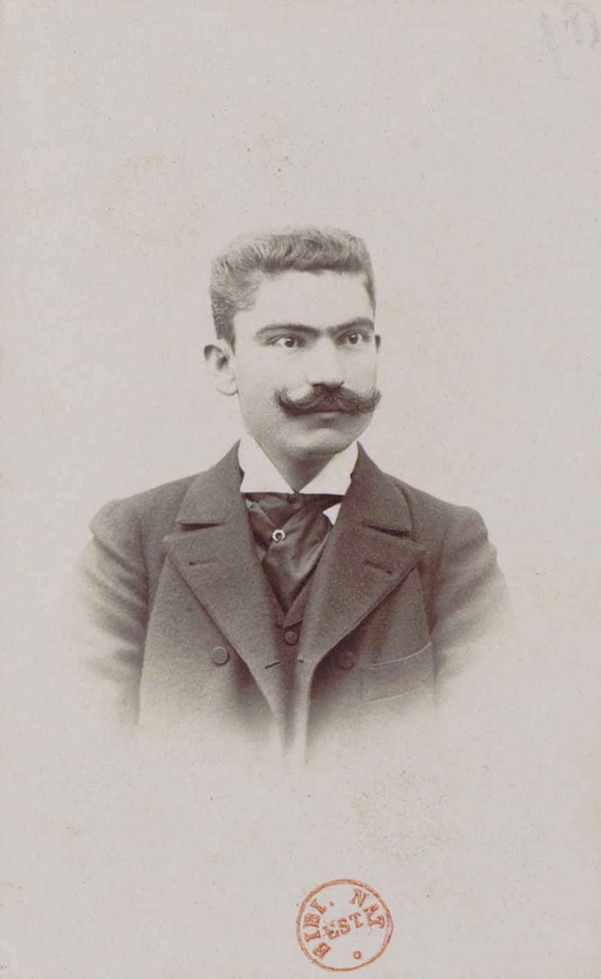 António Lobo de Almada Negreiros, as depicted on an album of the Portuguese section of the Exposition Universelle Internationale (Paris, 1900).